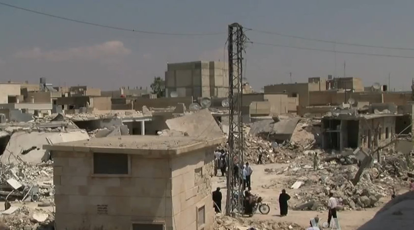 Azaz Syria during the Syrian civil war. After Syria government aerial bombardment (18 August 2012).